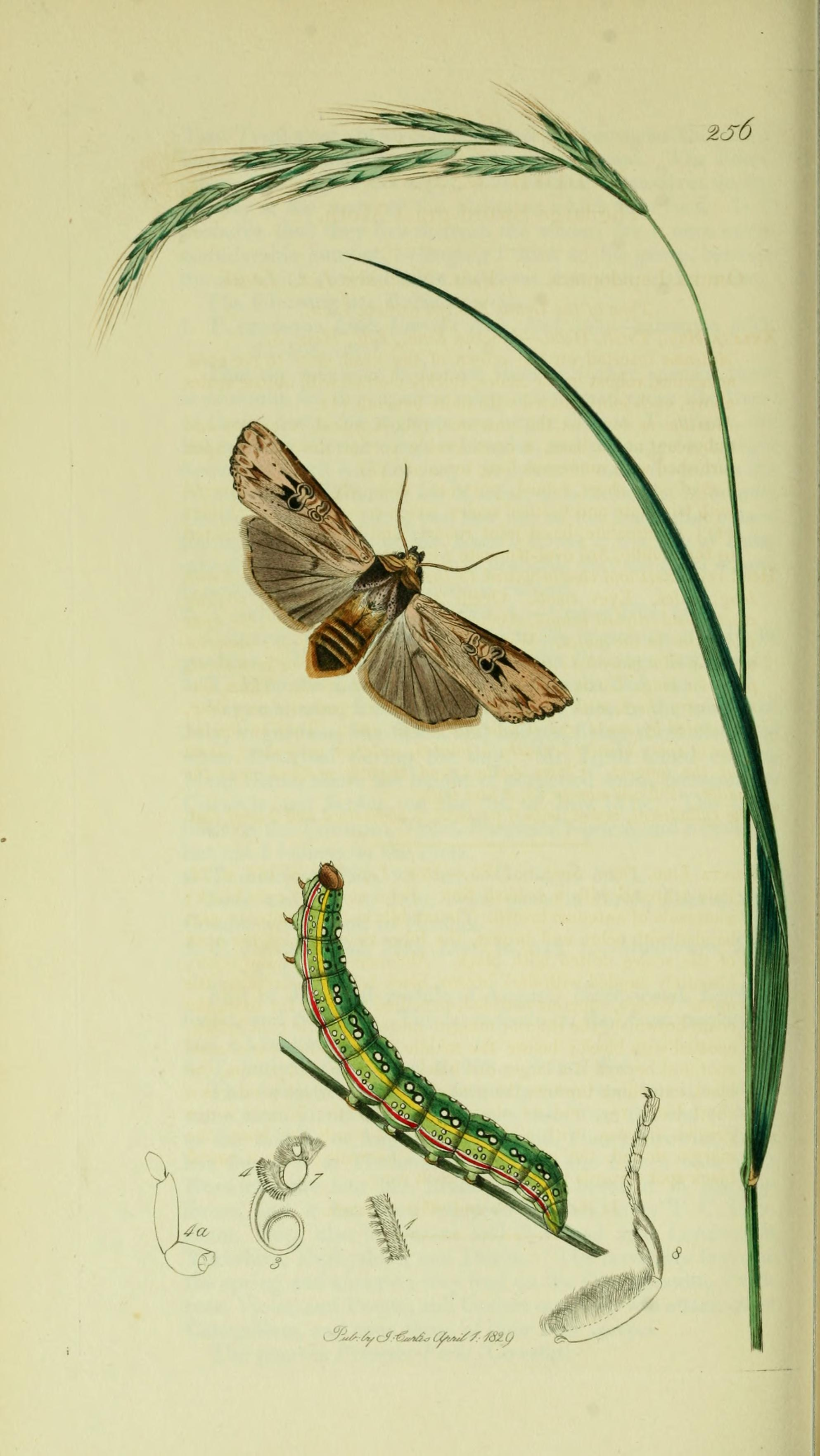 An illustration from British Entomology by John Curtis. Xylina exoleta or Xylena exsoleta (Large Sword-Grass, Cloudy Sword-grass).